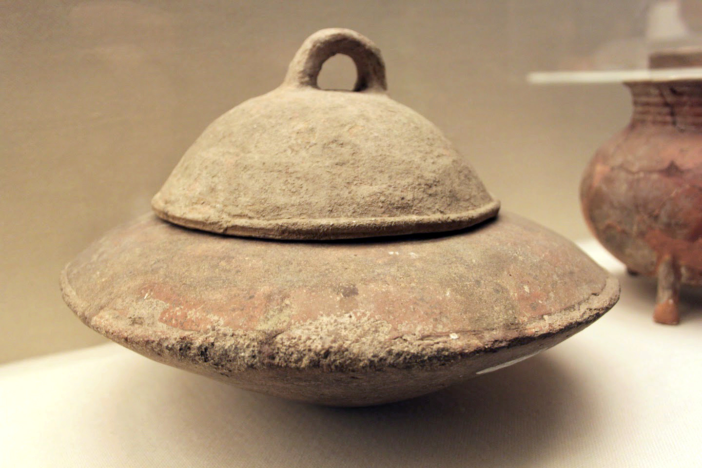 Yangshao culture cauldron, fu type. Henan Provincial Museum